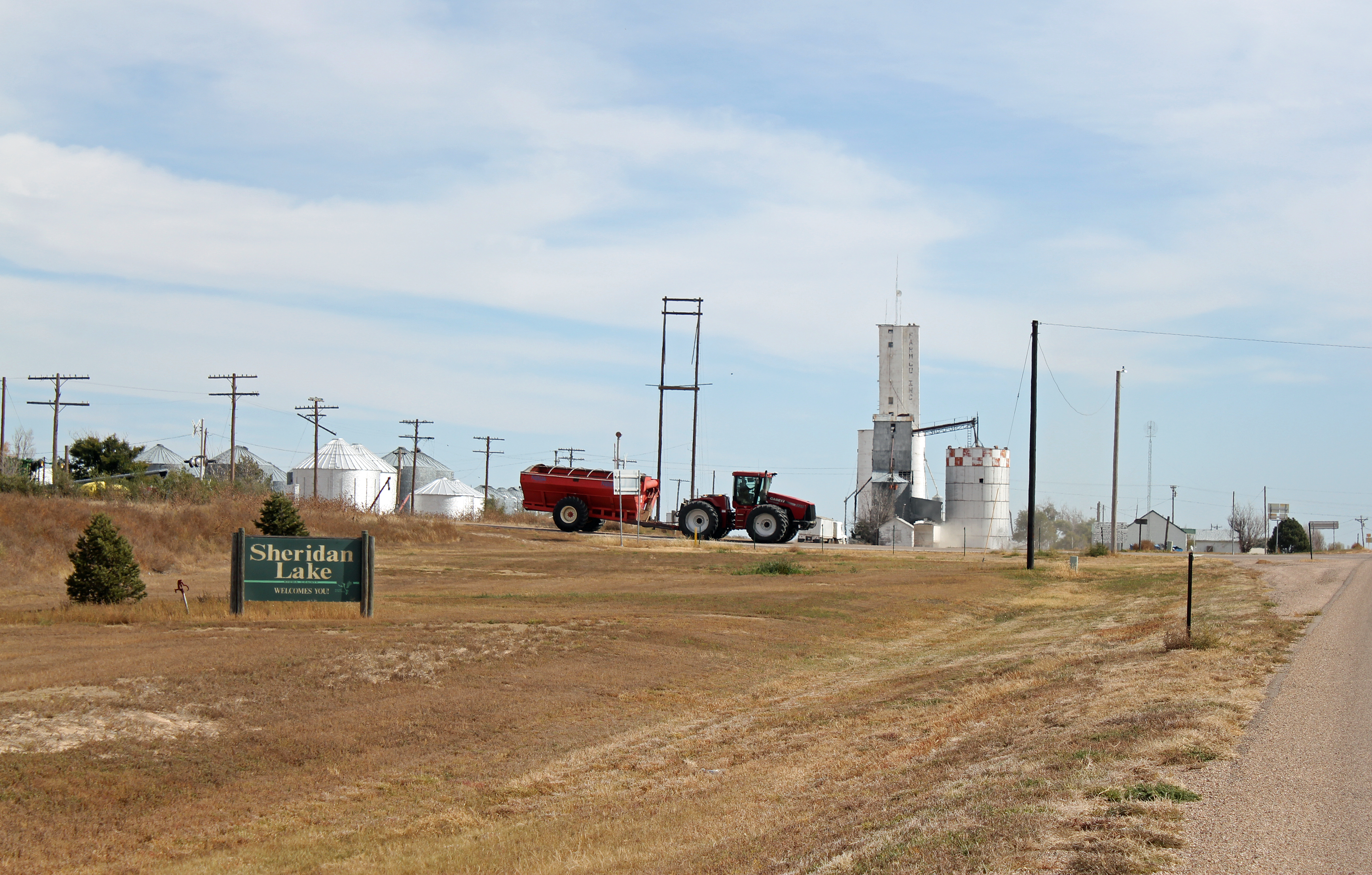 Sheridan Lake, Colorado.